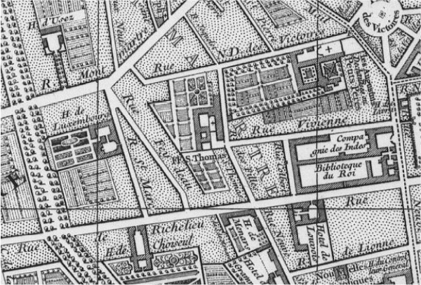 le quartier Vivienne à Paris, montrant l'hôtel de Montmorency-Luxembourg